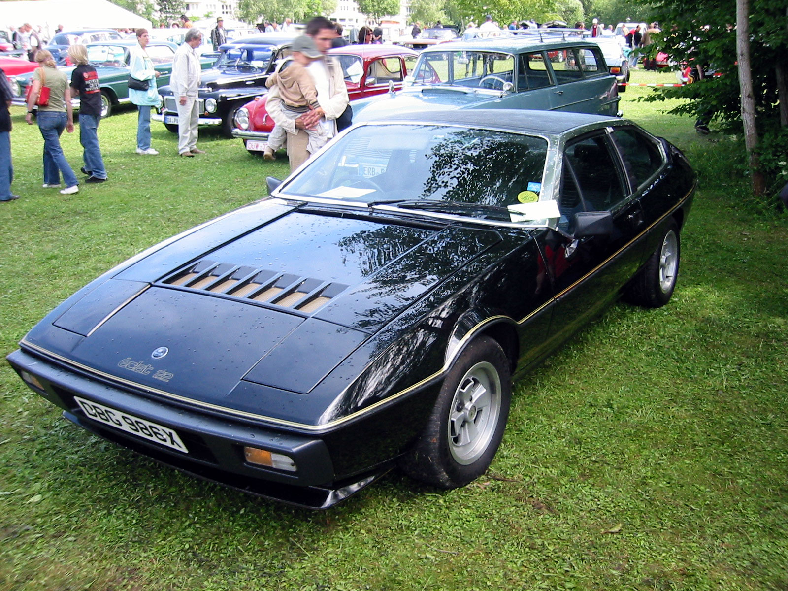 A Lotus Éclat 2.2 at the 13th Autoshow in Bad König